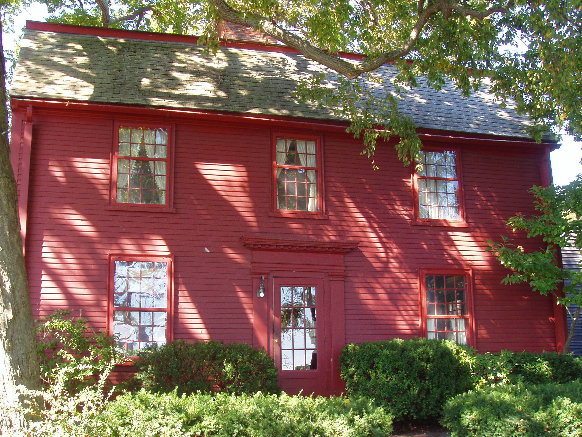 Nathaniel Hawthorne birthplace - Salem, Massachusetts. Photograph taken by me, September 2005.